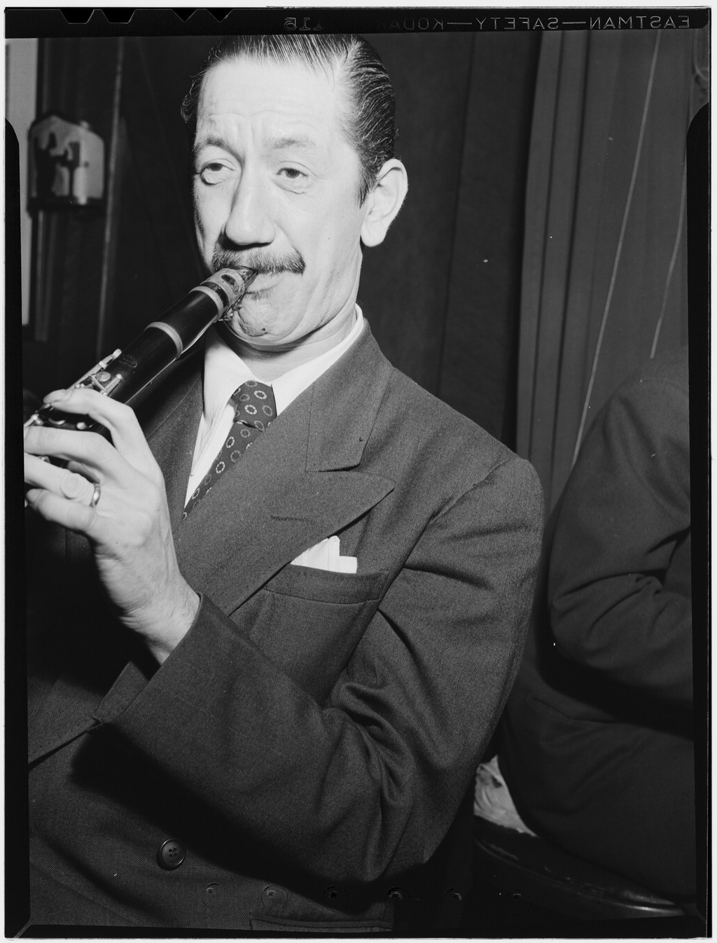 Portrait of Pee Wee Russell, Nick's (Tavern), New York, N.Y.